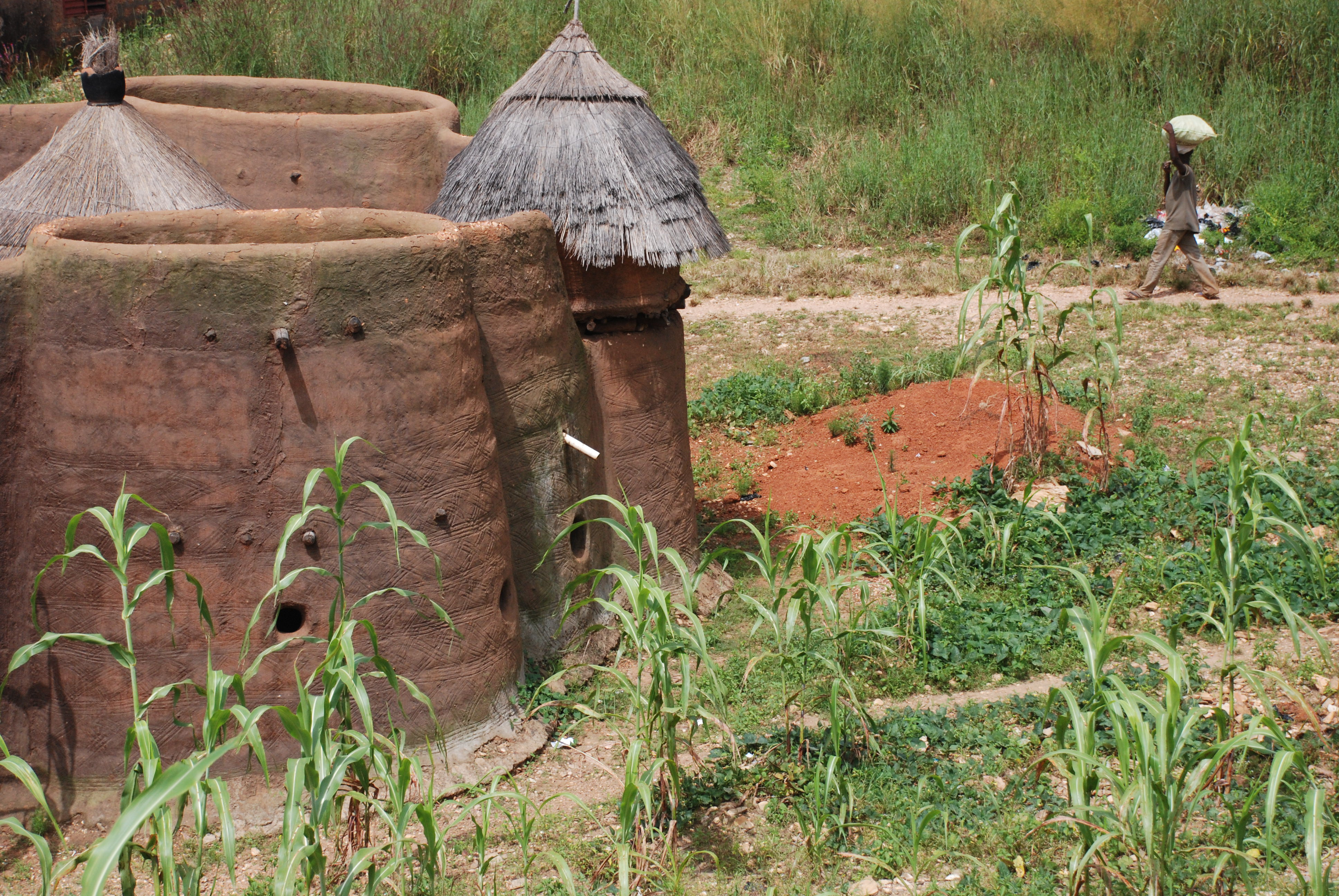 Benin - periphery of Natitingou - Tata Somba building - rebuild for tourists - now a restaurant